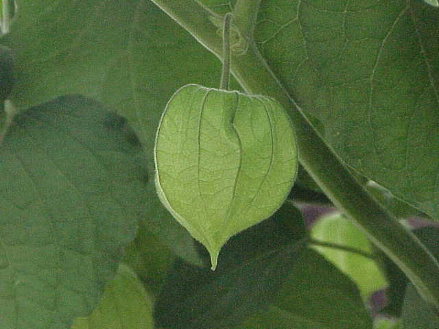 Species: Physalis peruviana Family: Solanaceae Image No. 3